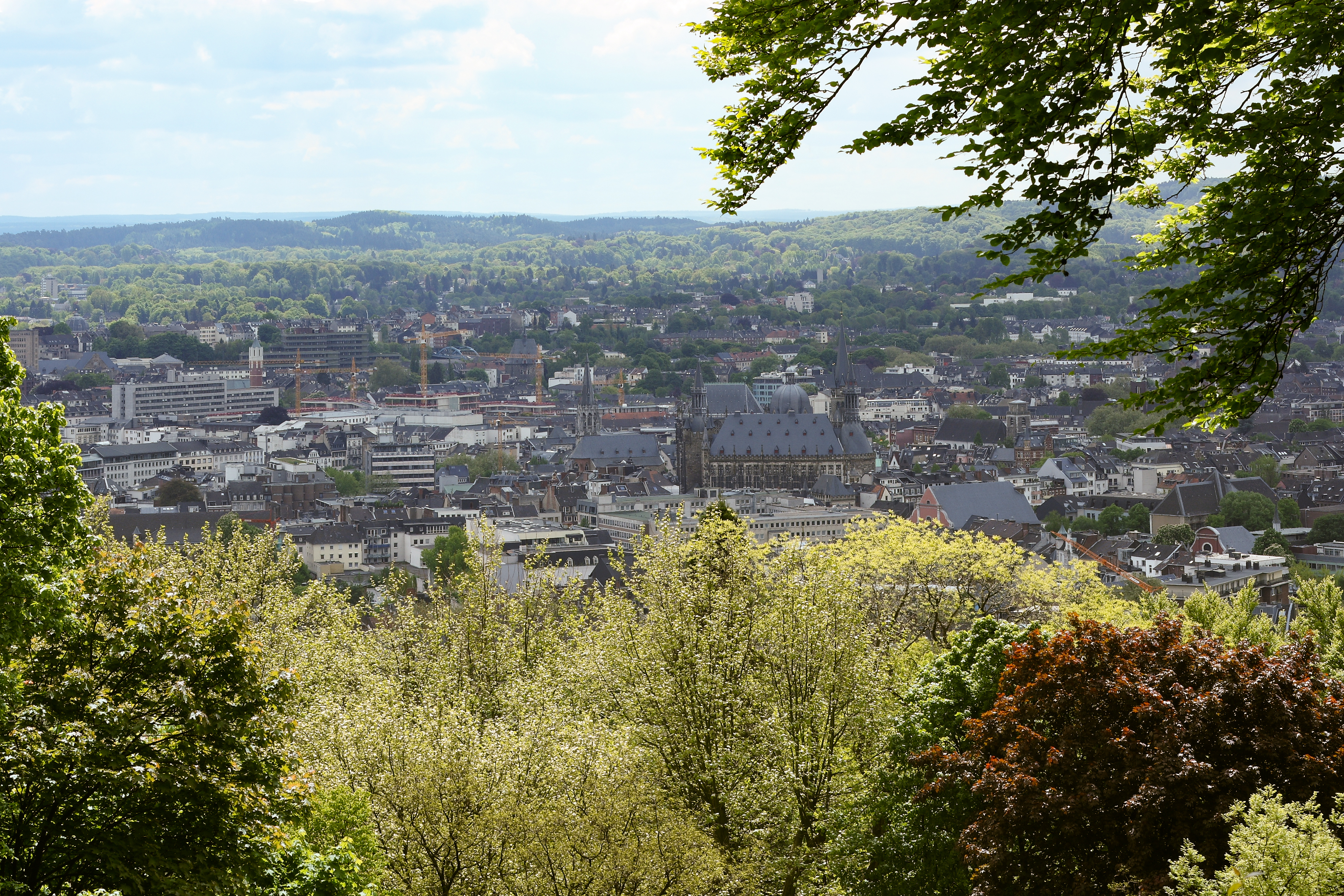 View of the city Aachen from the Lousberg.